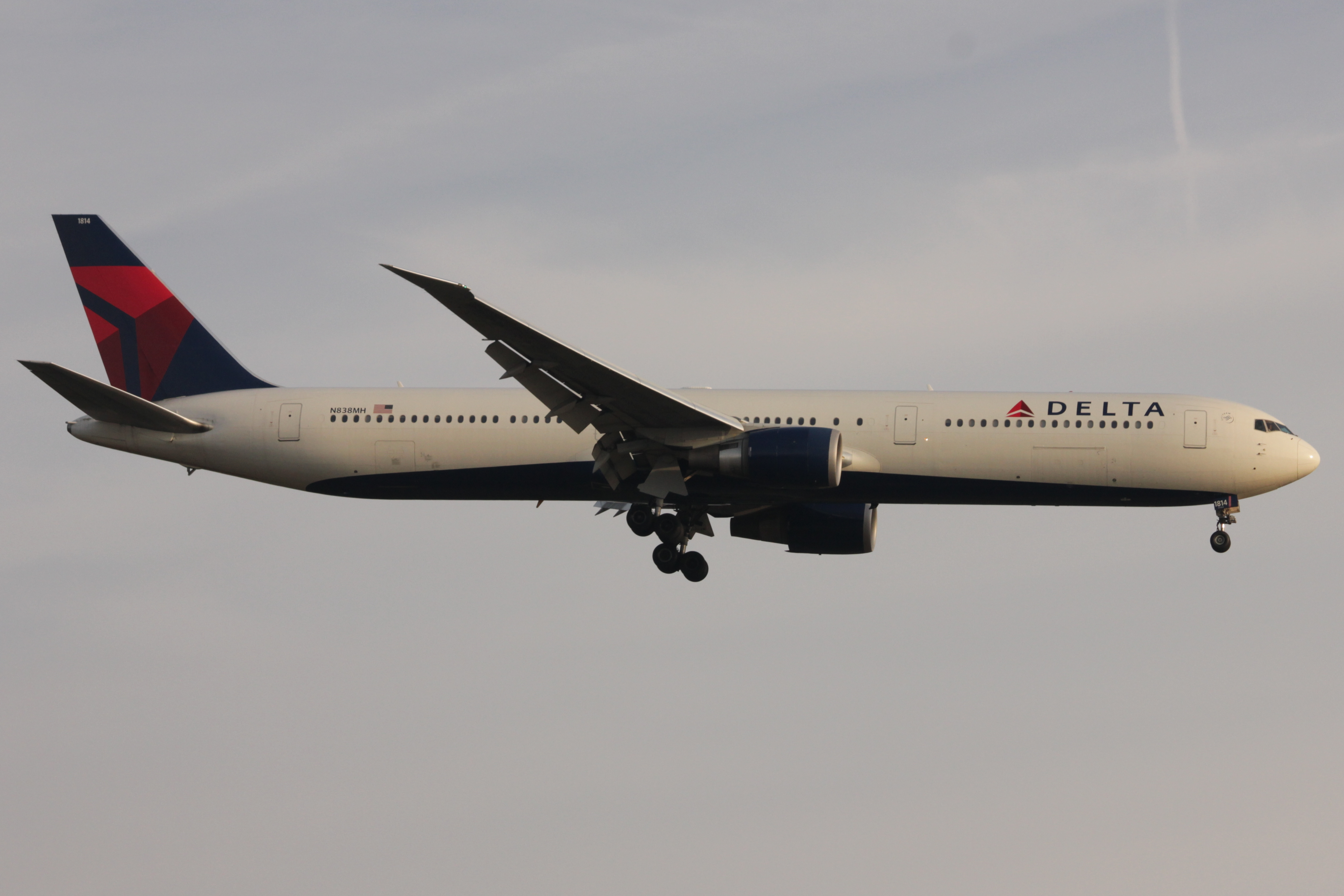 B764 of Delta in final approach to FRA